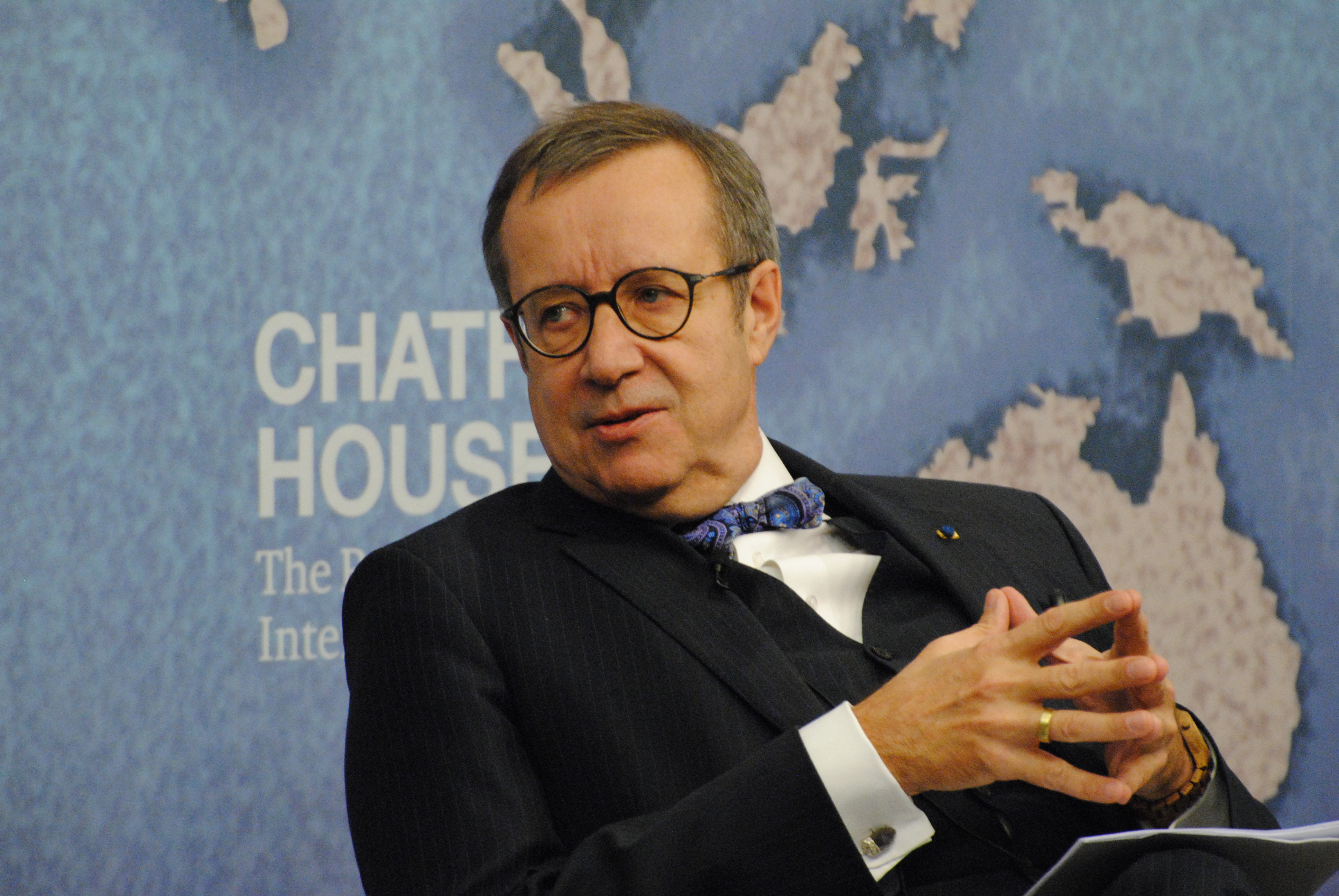 Building Europe's Digital Economy, 4 March 2016, cht.hm/1QXPvKL